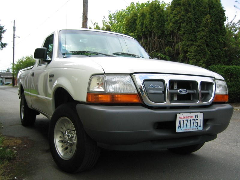 Ford Ranger EV - image by Geoff Shepherd, uploaded with permission by User:Leonard G., see Auston EV site and Geoff Shephard's Range EV Photo Album for source and other images.